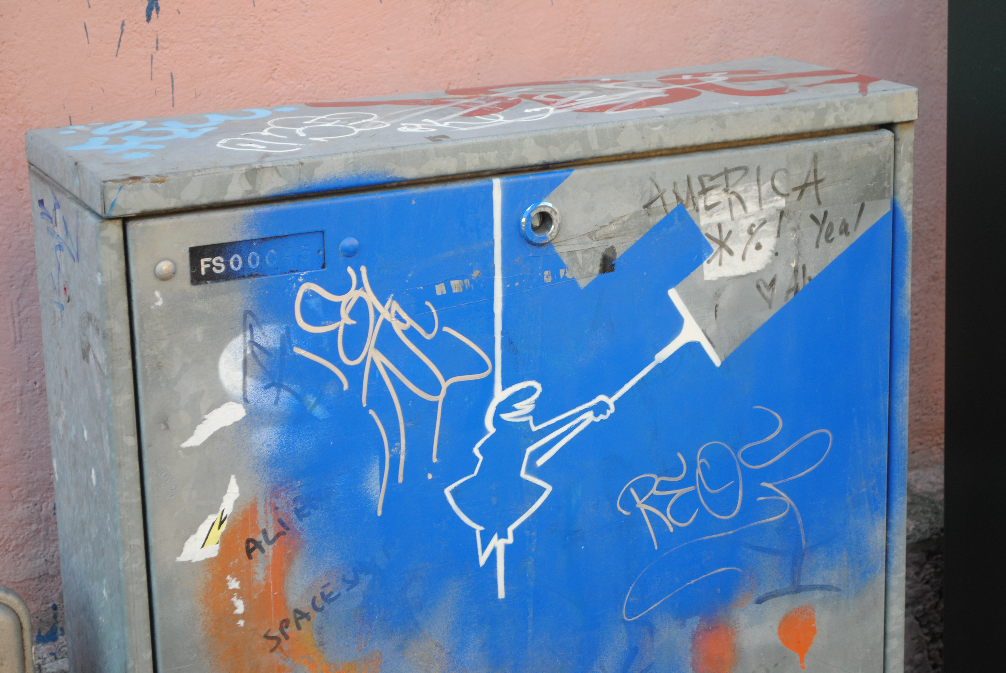 A graffiti/street art piece depicting the cartoon character La Linea.